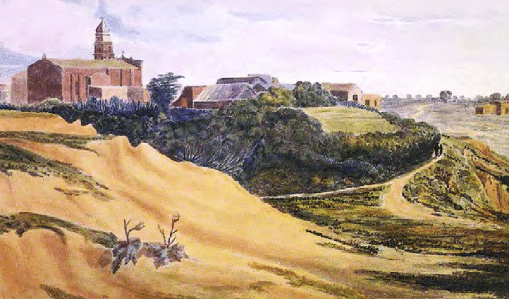 The town of San Isidro, Buenos Aires province, sketched April 1817 by Emeric Essex Vidal.